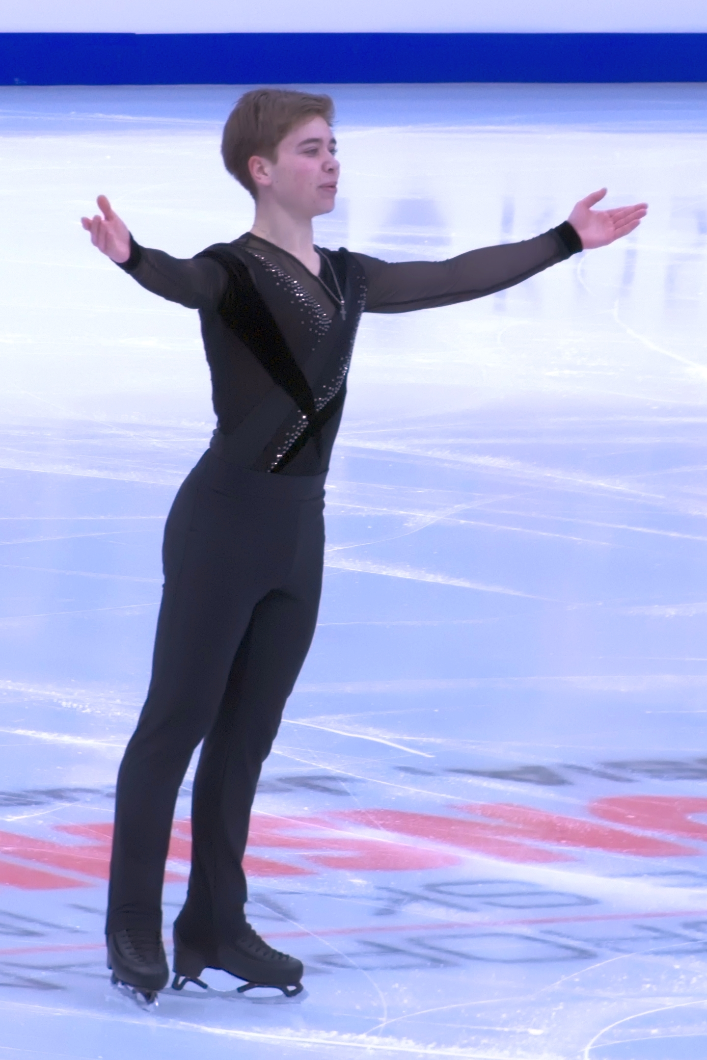 Daniel Albert Naurits (Estonia) at the 2018 European Figure Skating Championships in Moscow